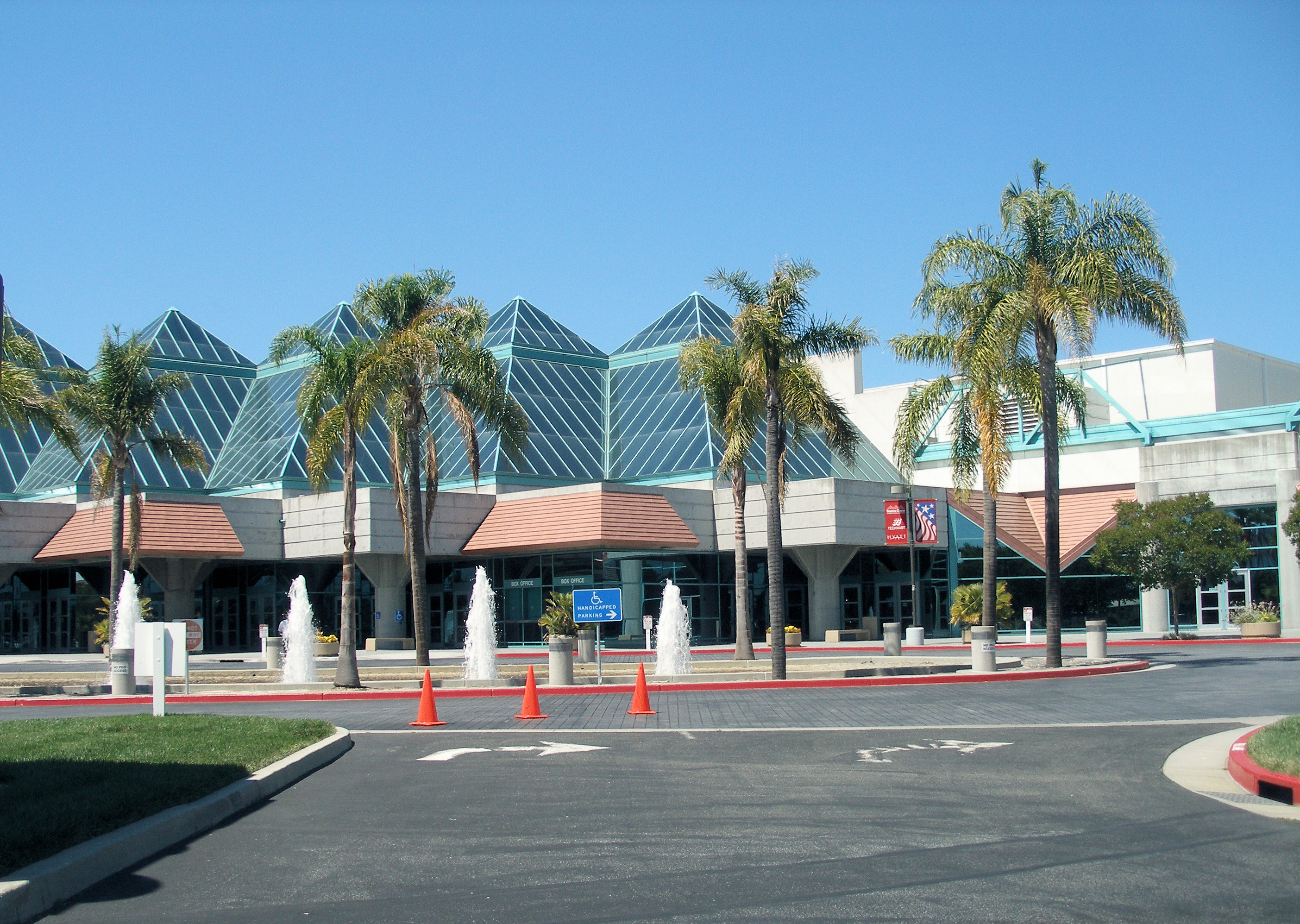 The Santa Clara Convention Center in Santa Clara. Photographed by user Coolcaesar on July 28, 2007.